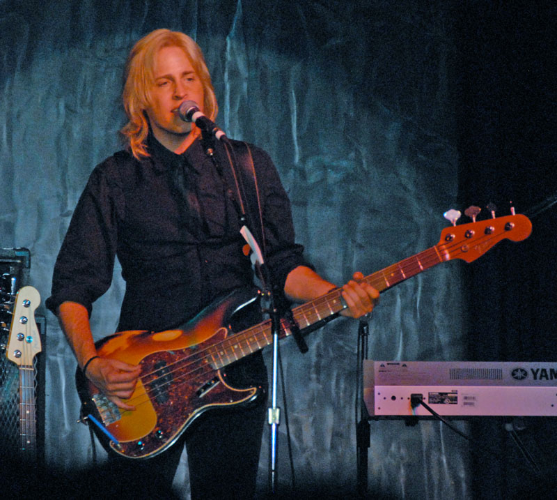 Matthew Nelson performing on Ricky Nelson show